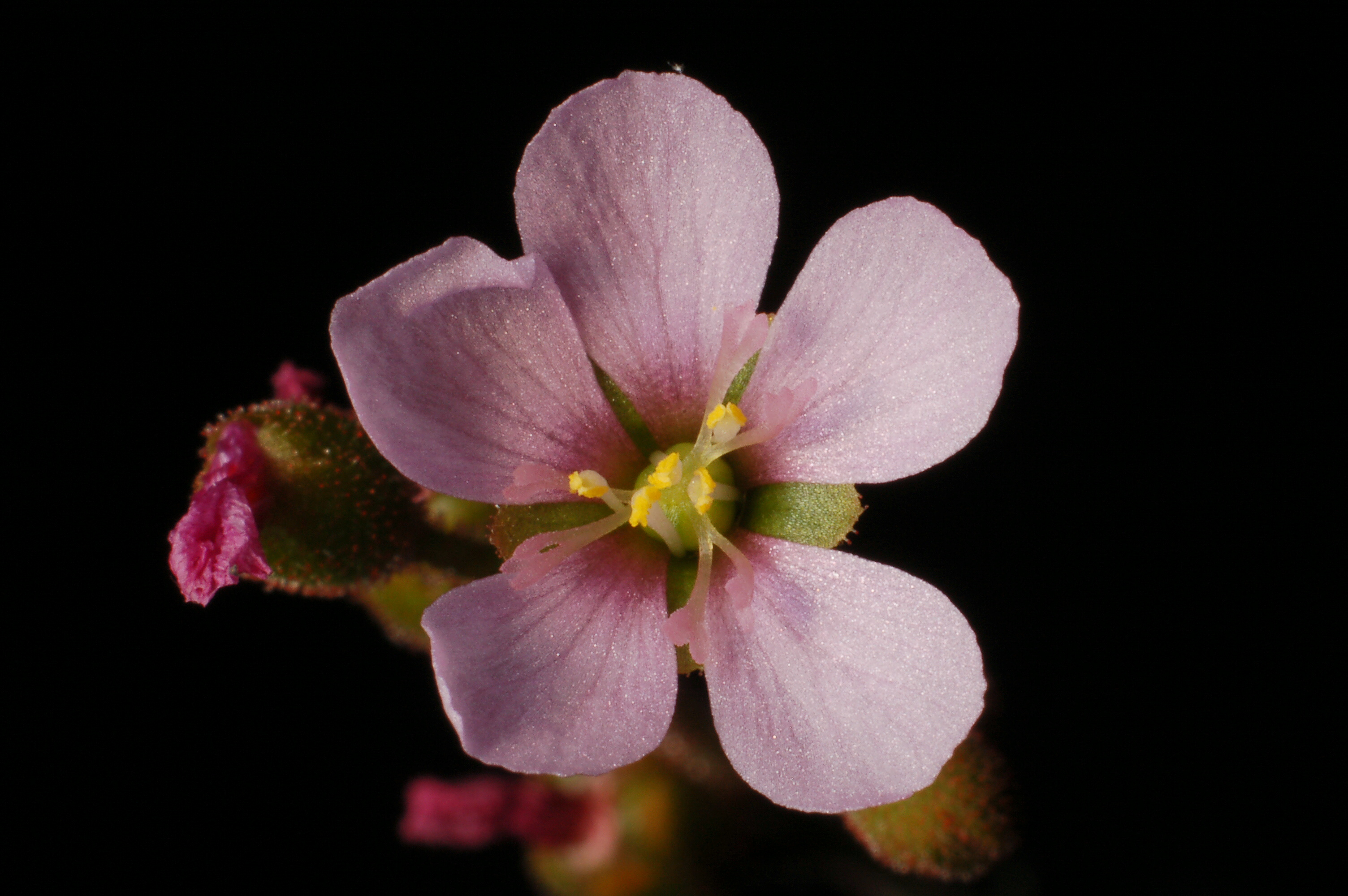 Drosera dielsiana